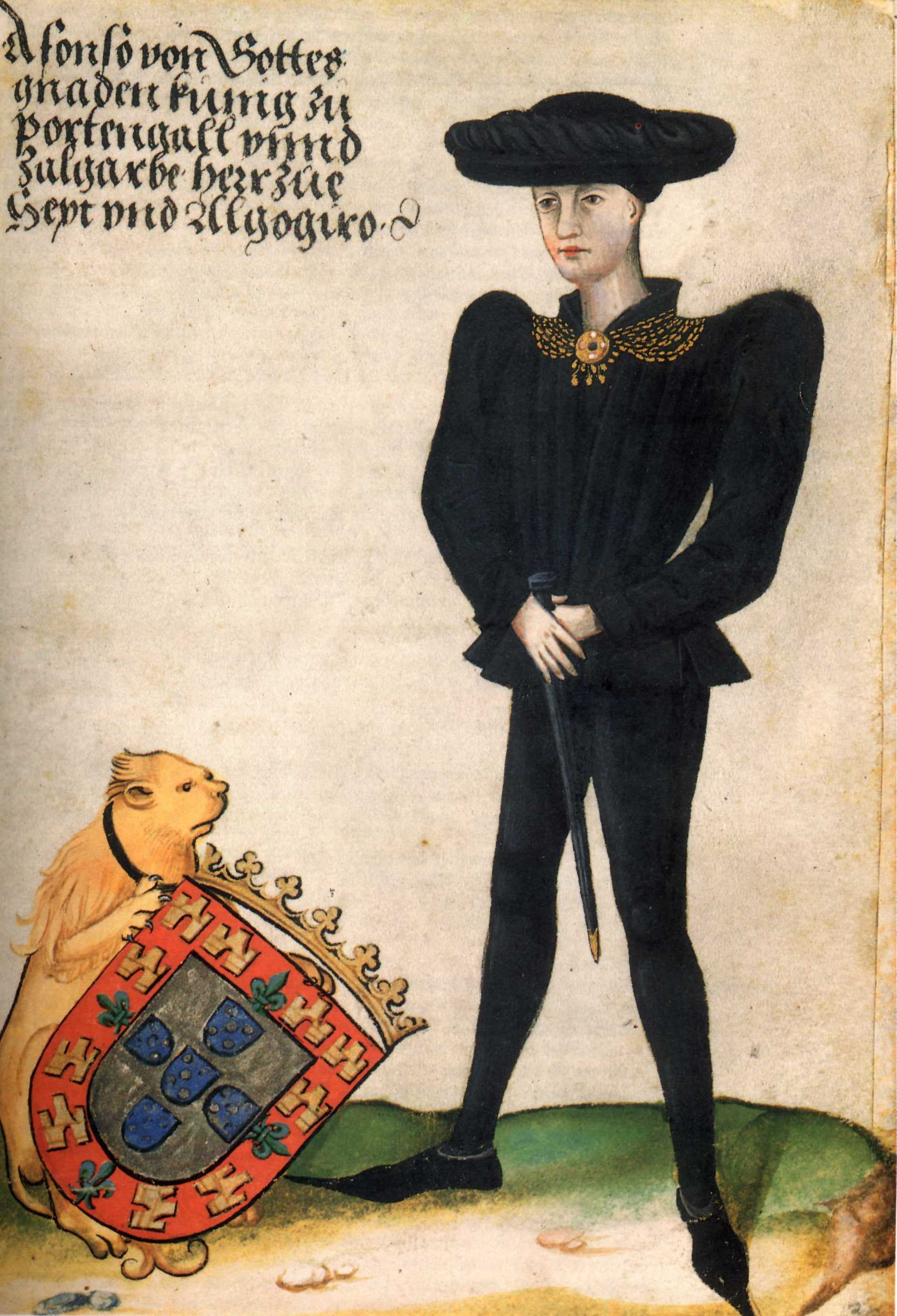 King Afonso V of Portugal, hand-colored sketch from the journal of Georg von Ehingen (1428-1508), currently held by the Württembergische Landesbibliothek in Stuttgart. George von Ehingen was a German Swabian knight who briefly served the Portuguese king Afonso V in Ceuta in 1458-59. The author of the sketch is uncertain, but it was included in the manuscript of von Ehingen's memoirs written around 1470, or perhaps a little later, currently held in Stuttgart. A woodcut based on this sketch is found in the printed version of von Ehingen's memoirs, the Itinerarium, published in 1600 in Augsburg. As von Ehingen was a contemporary of Afonso V, this may be perhaps a reasonably accurate likeness of the king.